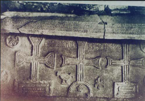 The cross and Sun of Macedonia, a old symbols on Joanikie's sarcophagus in church of St. Atanasisu from 14 century